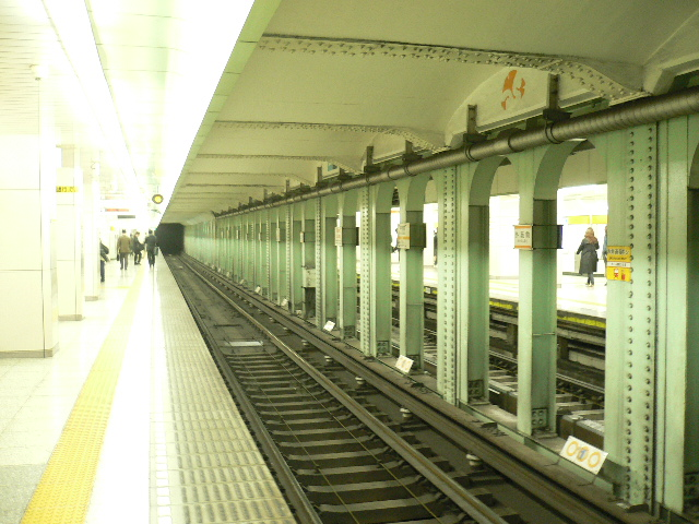 Gaien-mae Station in Minato Ward, Tokyo, Japan